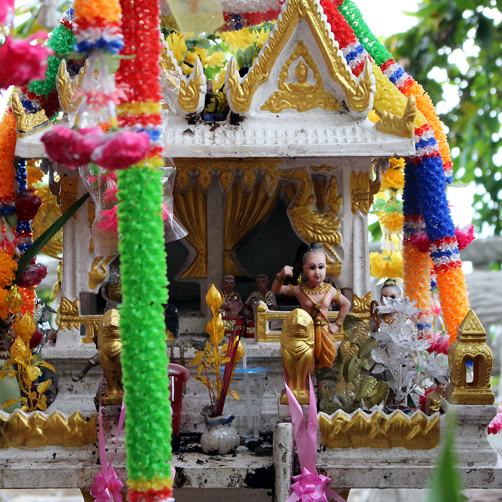 Dwellers in a Spirit House: an old man and woman sitting in the back represents the "Lord of the Land" spirit(s), with dancing girls at front as helpers. Other helpers are angels and a variety of animals. (Chaweng Noi Viewpoint, Koh Samui, Thailand, 2016)